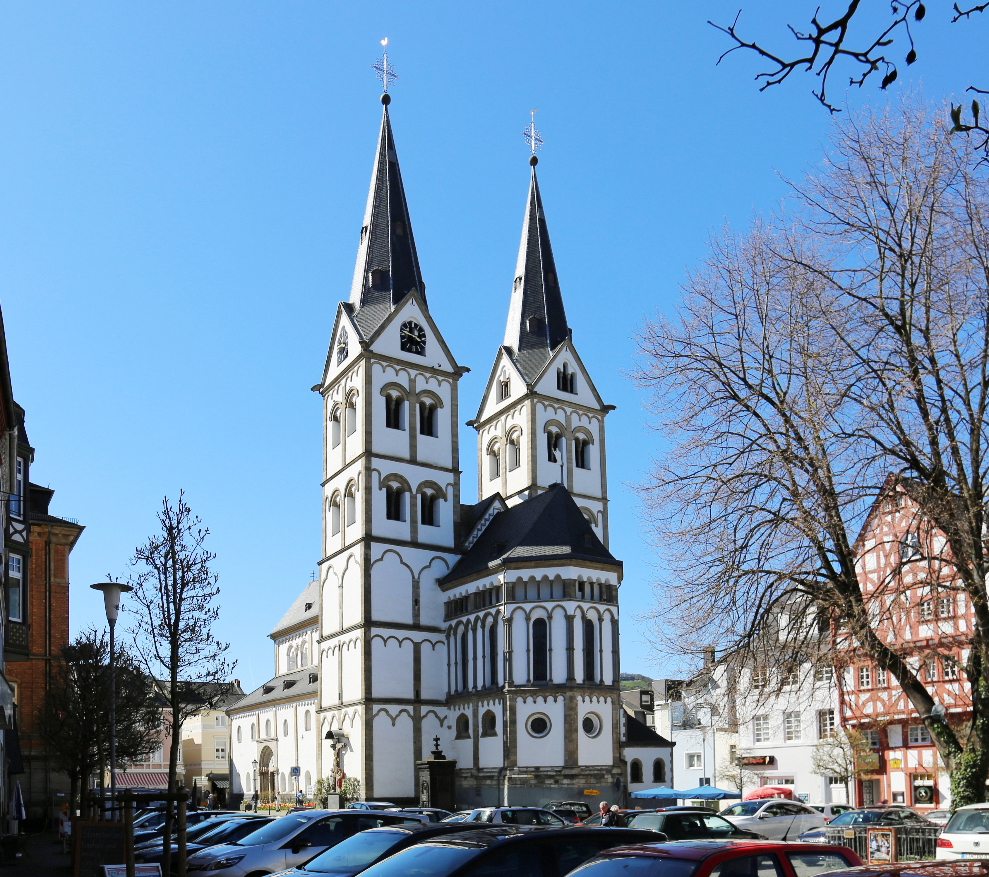 Basilica Saint Severus of Boppard, Detail